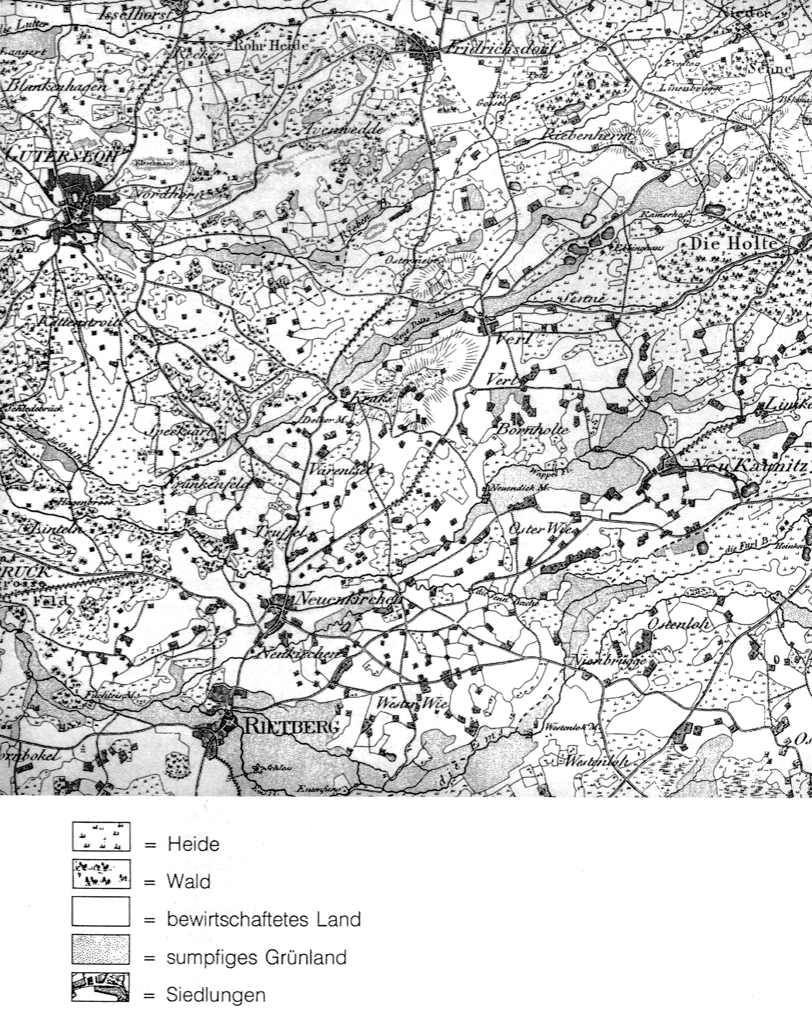 Map of Verl from 1805